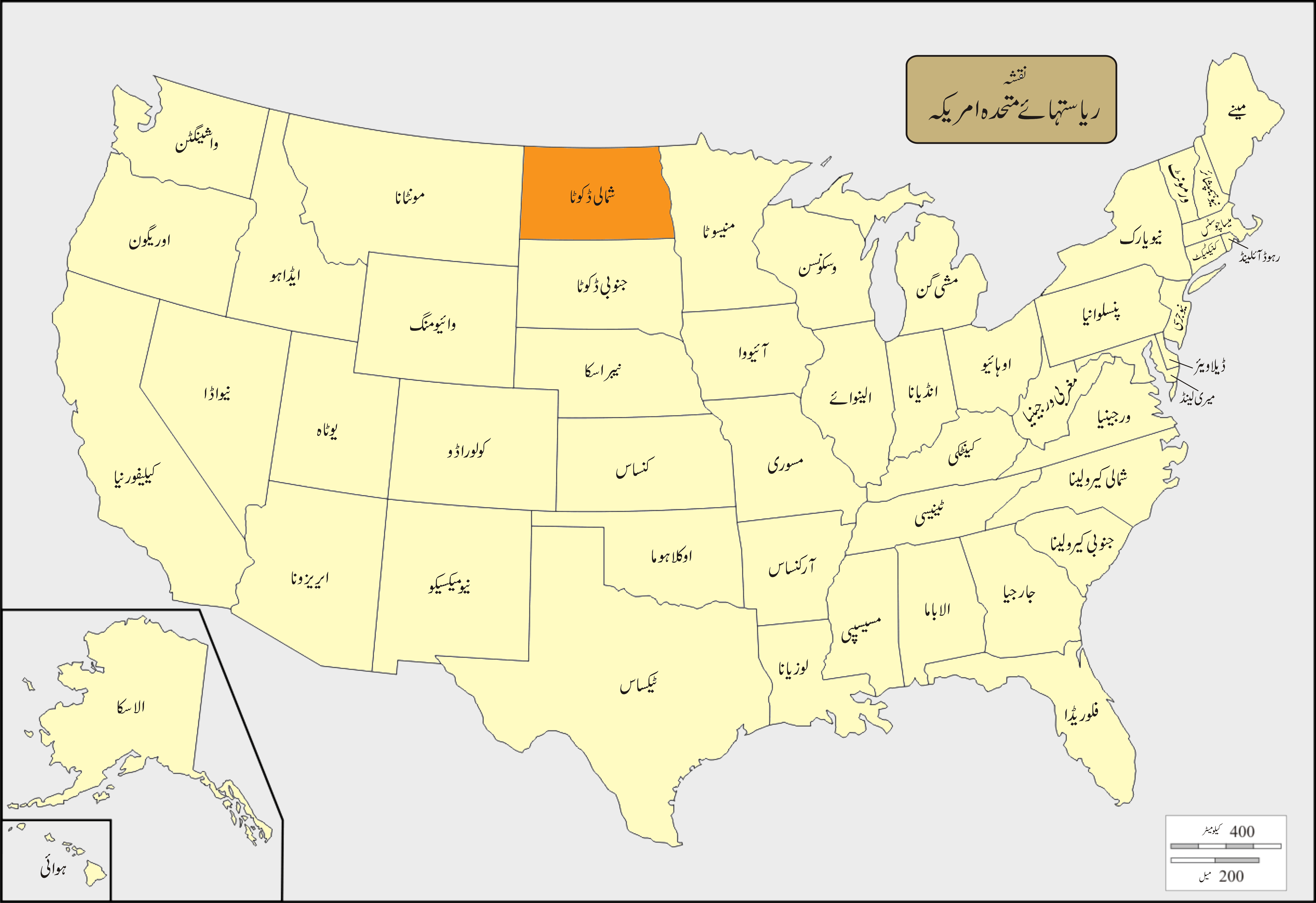 USA Names North Dakota